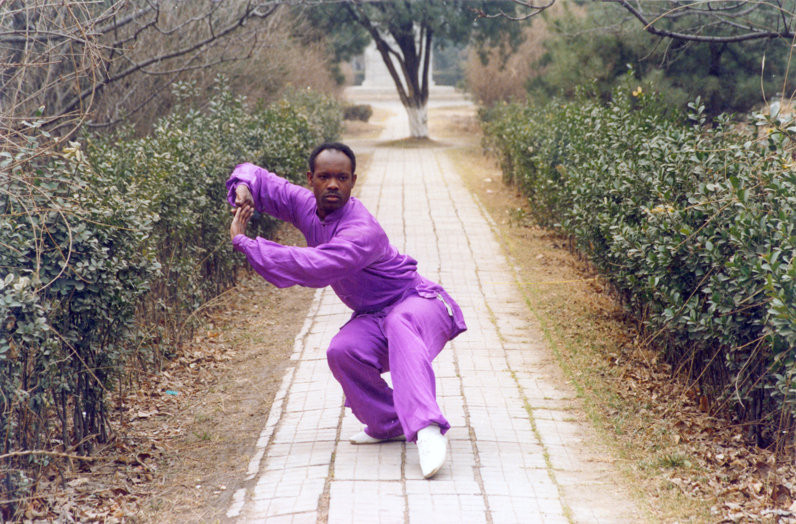 street defense